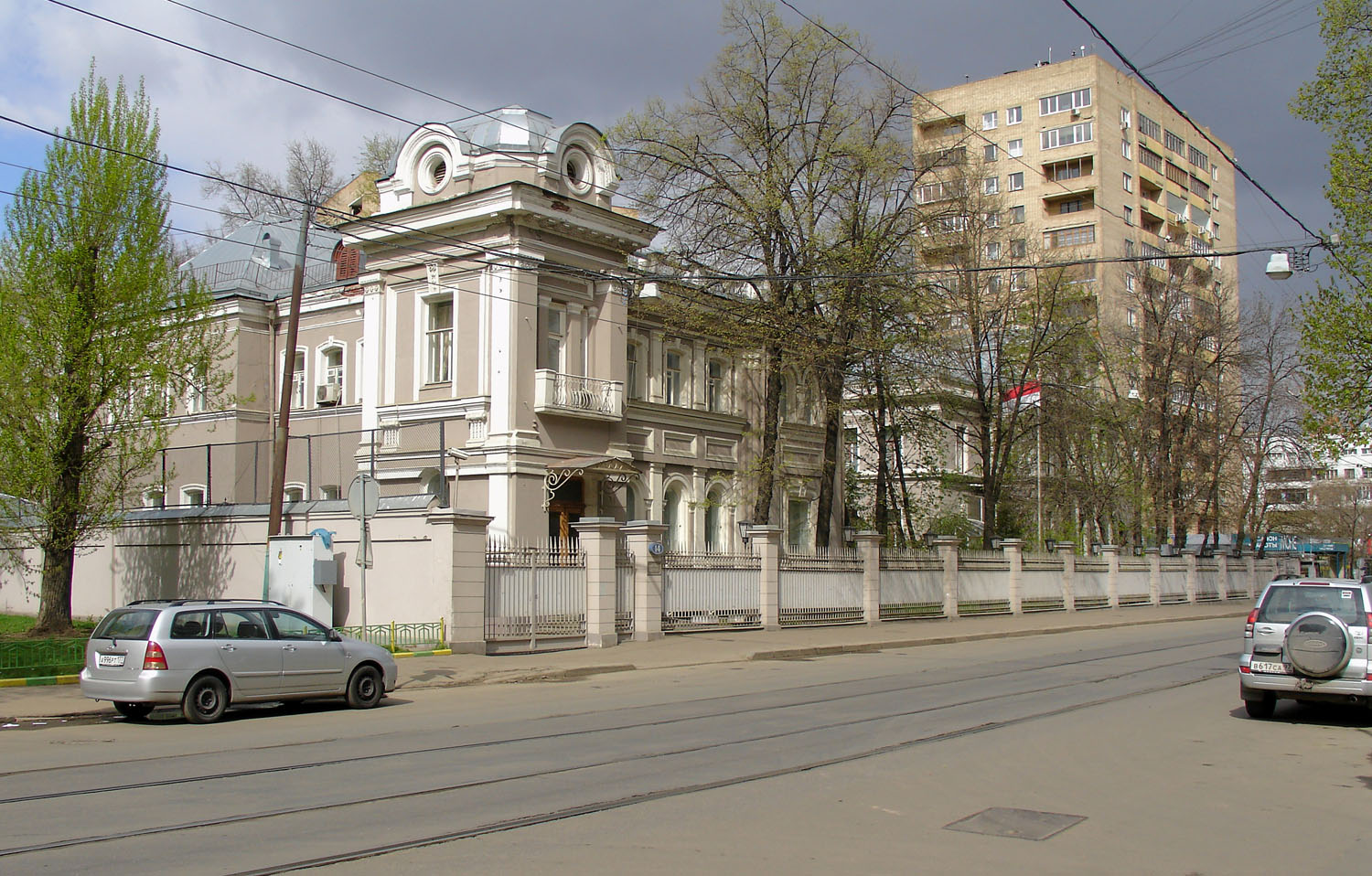 Embassy of Indonesia in Moscow (Novokuznetskaya Street). Former Urusova house, design by Ivan Rerberg, 1912.